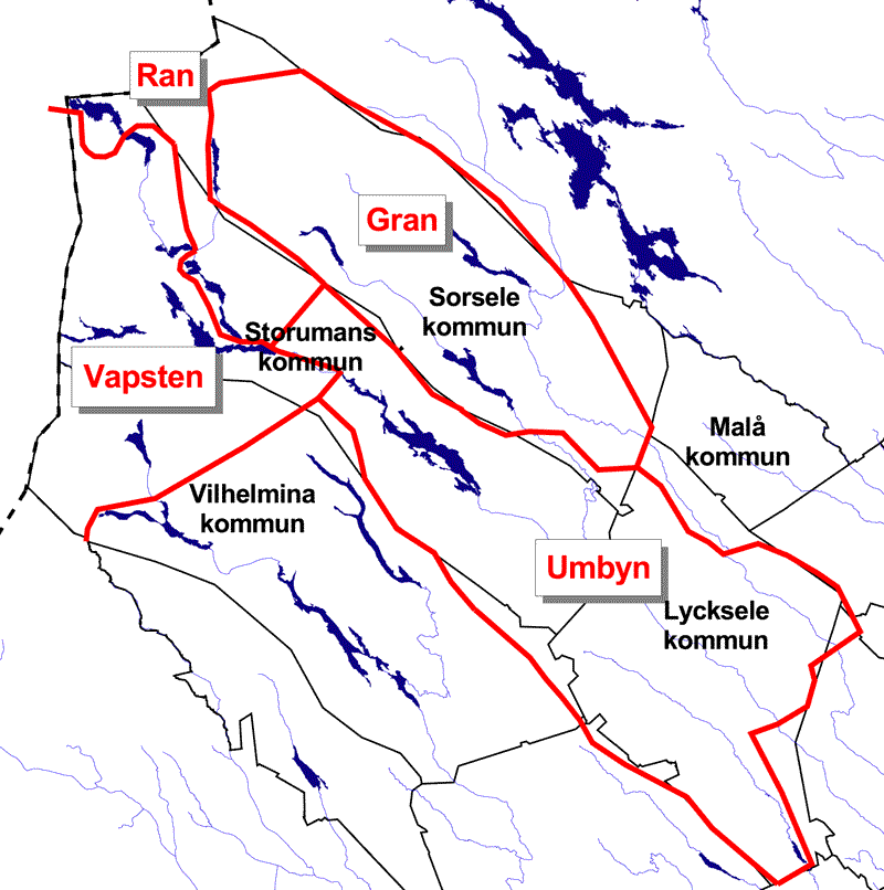 Map of sami village areas in Umeå lappmark (Sweden) 1670 (in red), with present municipalities (in black). Ran and Vapsten were inhabited by mountain sami who also lived on the norwegian side of the border. Gran and Umbyn were mostly inhabited by forest sami. According to Norstedt (2011), Lappskattelanden på Geddas karta.